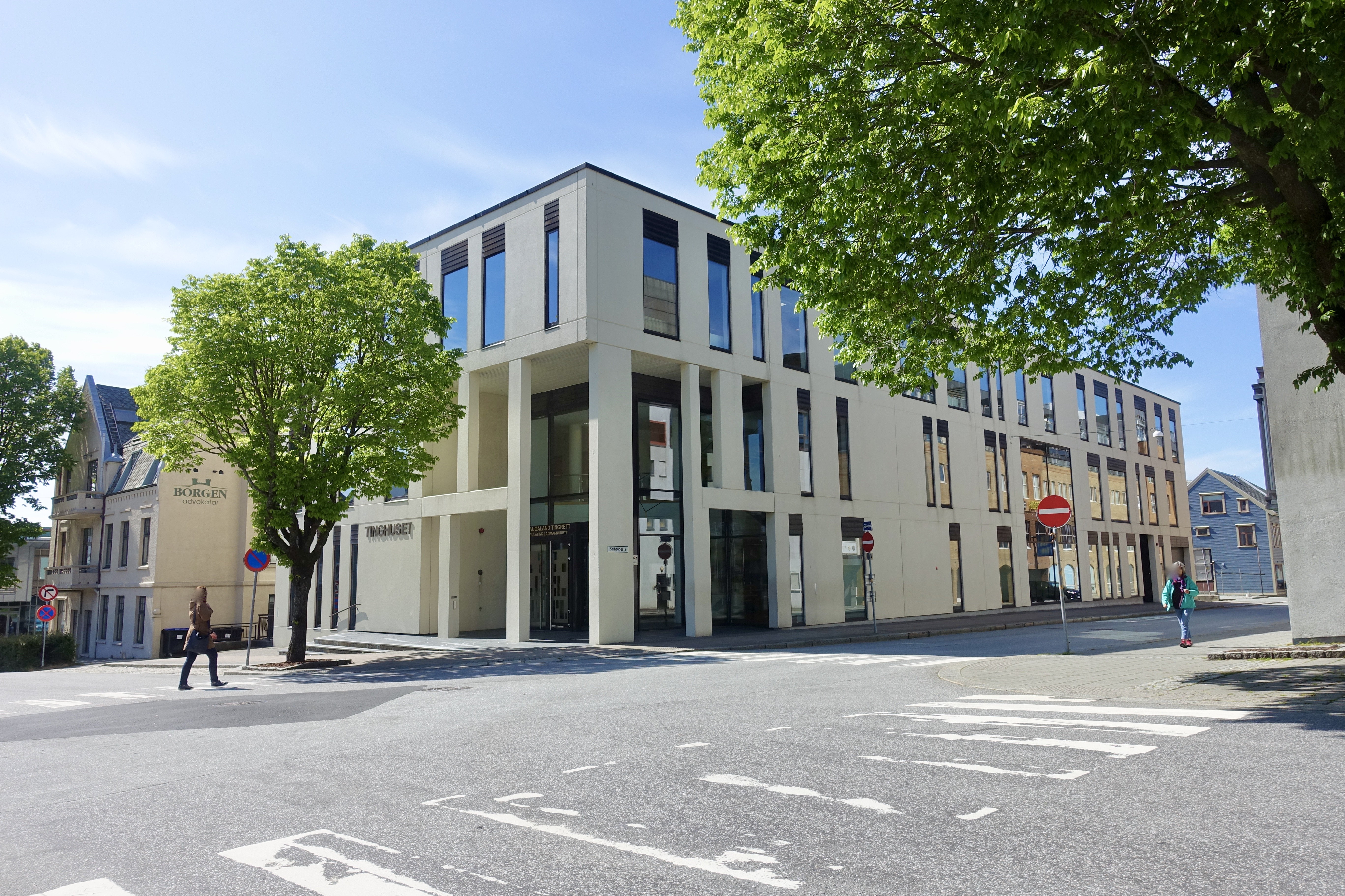 Haugaland District Court (Norwegian: Haugaland tingrett) is a court of first instance under Gulating Court of Appeal. The court is located in Haugesund, Norway. Photo taken in June 2020.